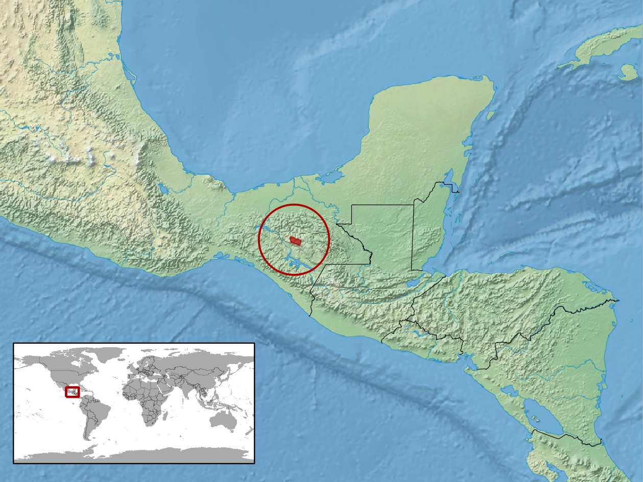 geographic distribution of Coniophanes alvarezi (Native: Mexico)